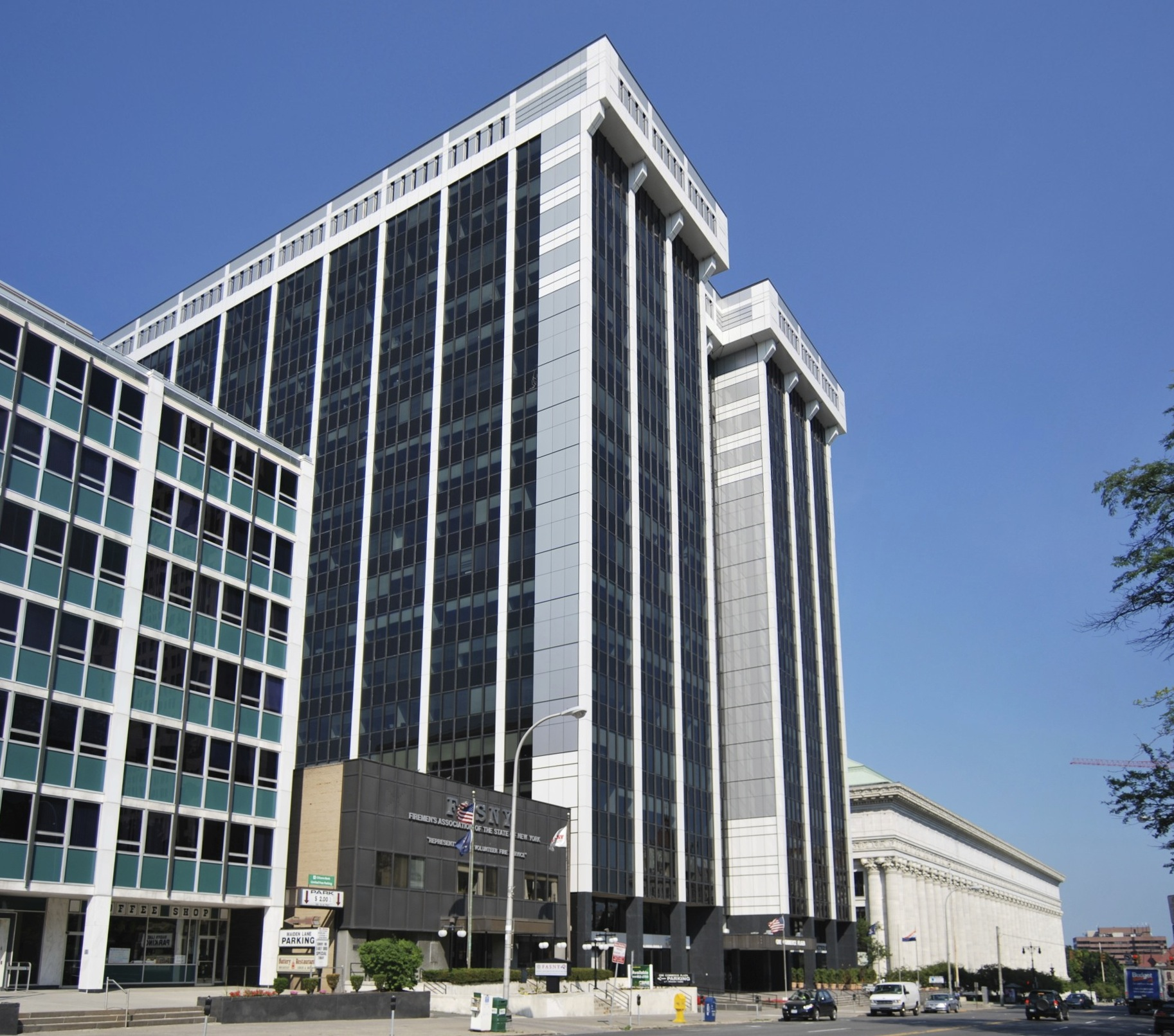 One Commerce Plaza, the largest private office building in Albany, New York, United States